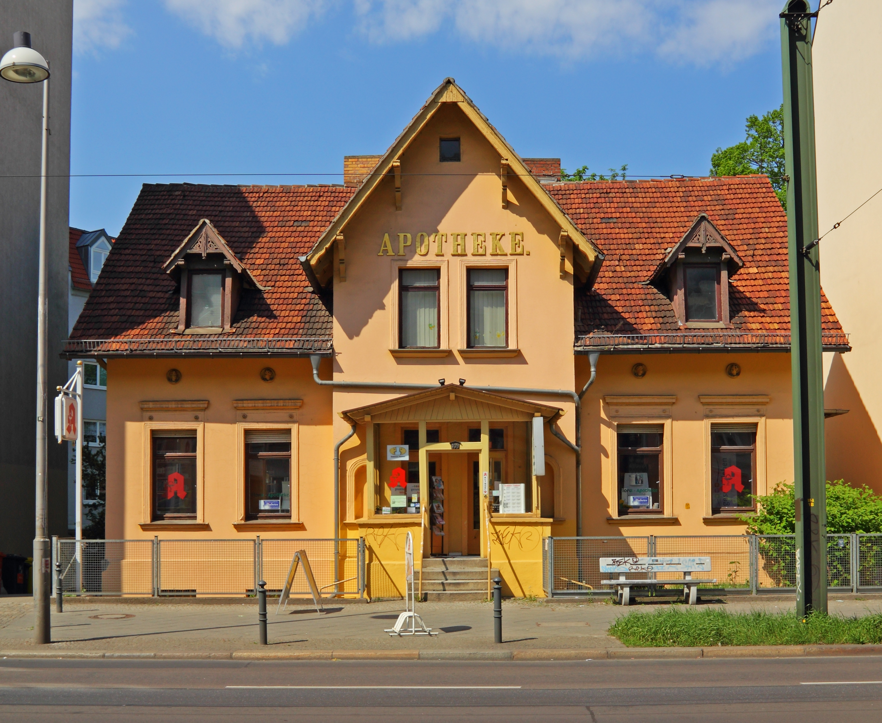 Berlin-Weißensee, Berliner Allee, old pharmacy